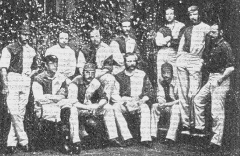 Oxford University AFC's FA Cup winning team of 1873-74 edition of the FA Cup. Standing: Walpole Vidal, Frederick Green, Charles Mackarness, Arthur Johnson, Robert Benson, Francis Birley, Charles Nepean; Seated: Cuthbert Ottaway, Frederick Patton, Frederick Maddison, William Rawson